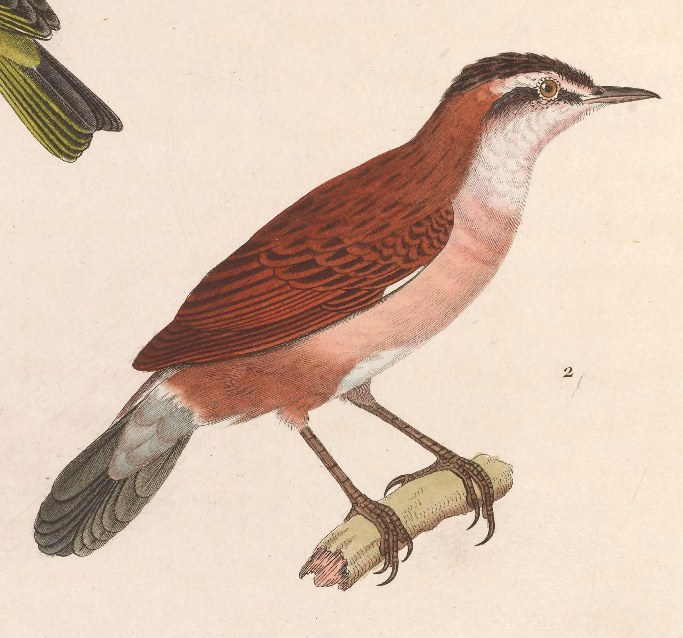 « Sylvia melanopogon » = Acrocephalus melanopogon (Moustached Warbler) - adult male